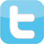 AIMMP@Twitter